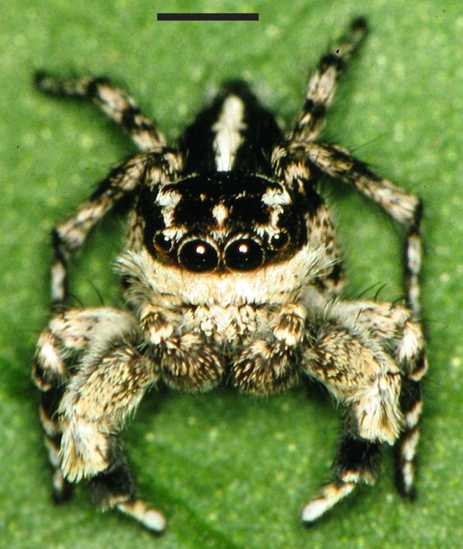 Male Habronattus georgiensis jumping spider from Cedar Key, Levy County, Florida, USA